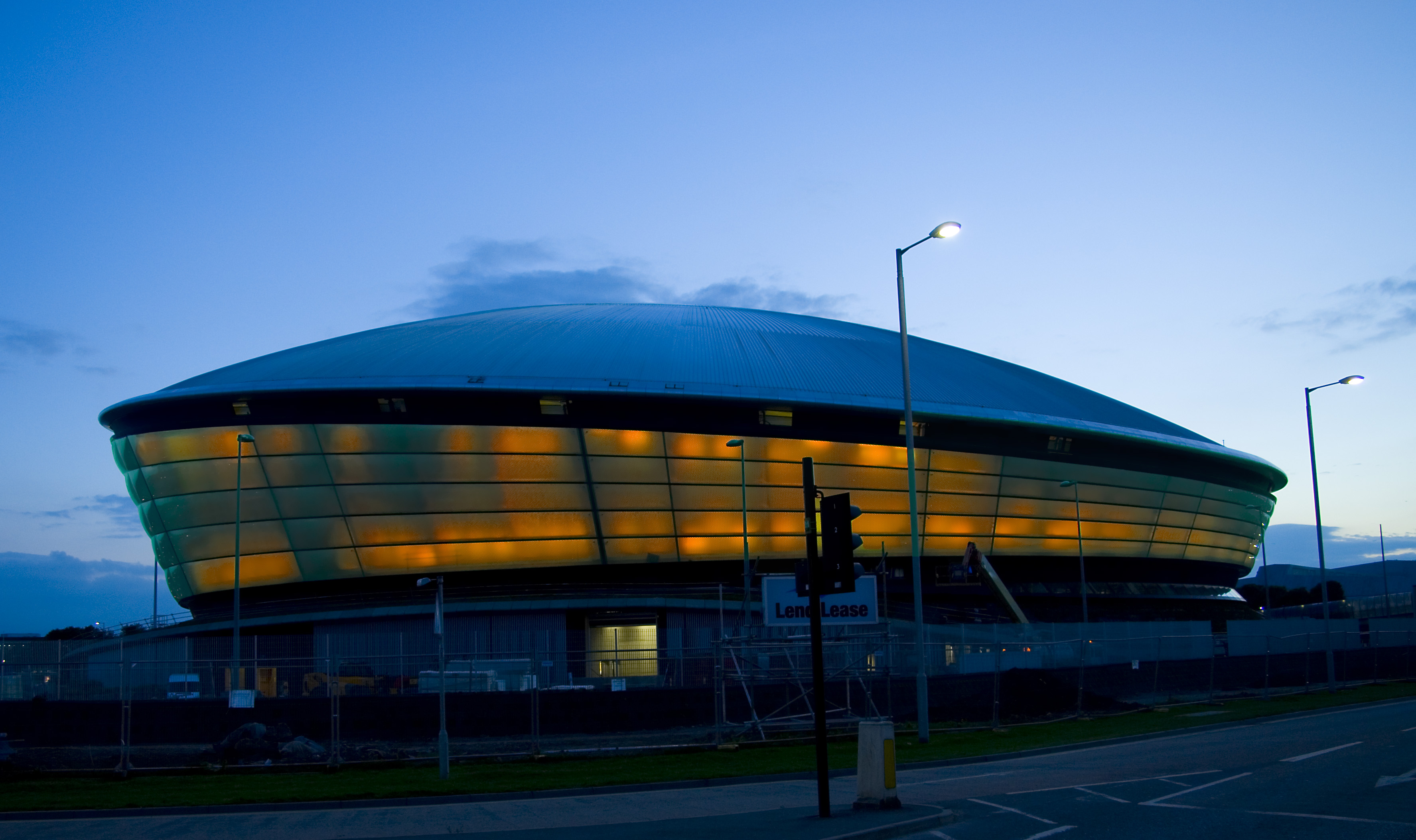 The SSE Hydro Glasgow, Scotland